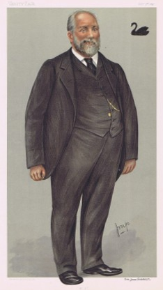 Caricature of The Rt Hon Sir John Forrest. Caption read "WA".